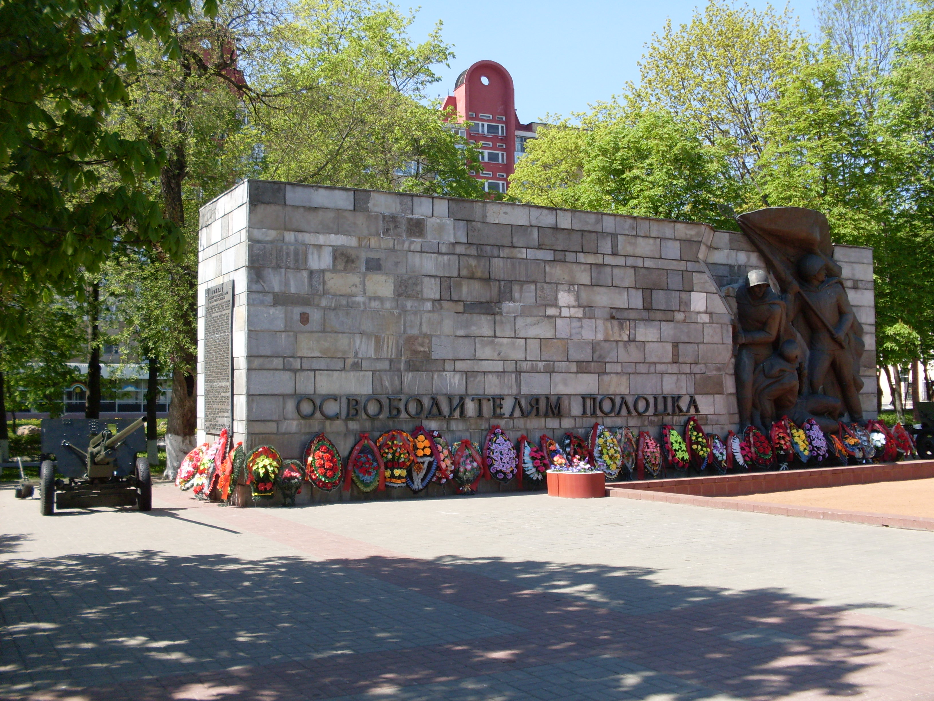 Monument to the Liberators of Polotsk. 1981, Polotsk (Belarus)